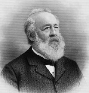 Daniel Baird Wesson, one of the founders of Smith & Wesson - the world's largest private producers of firearms in the world.